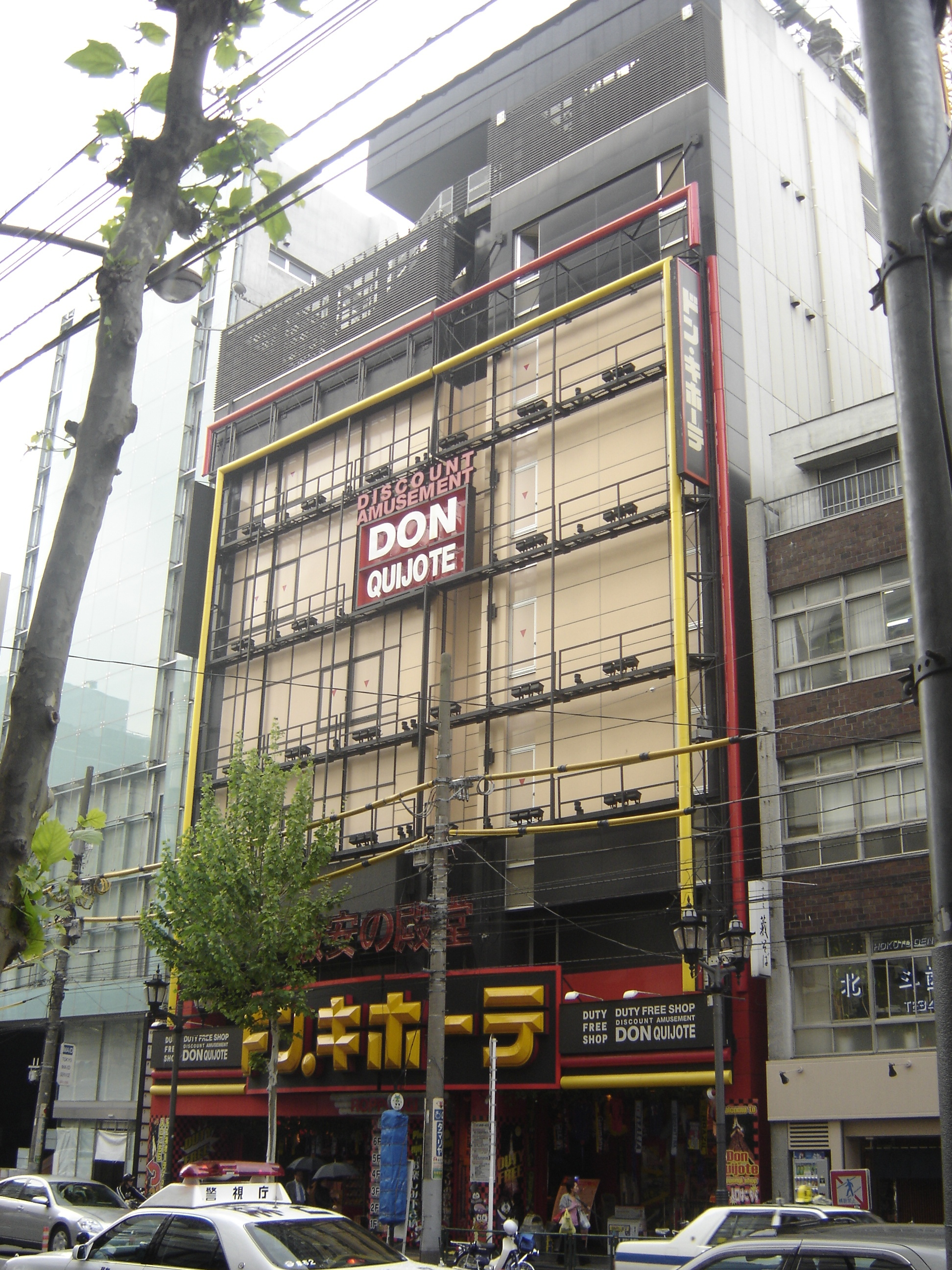 The store front of the eight story Don Quijote building in Roppongi, Tokyo, Japan.